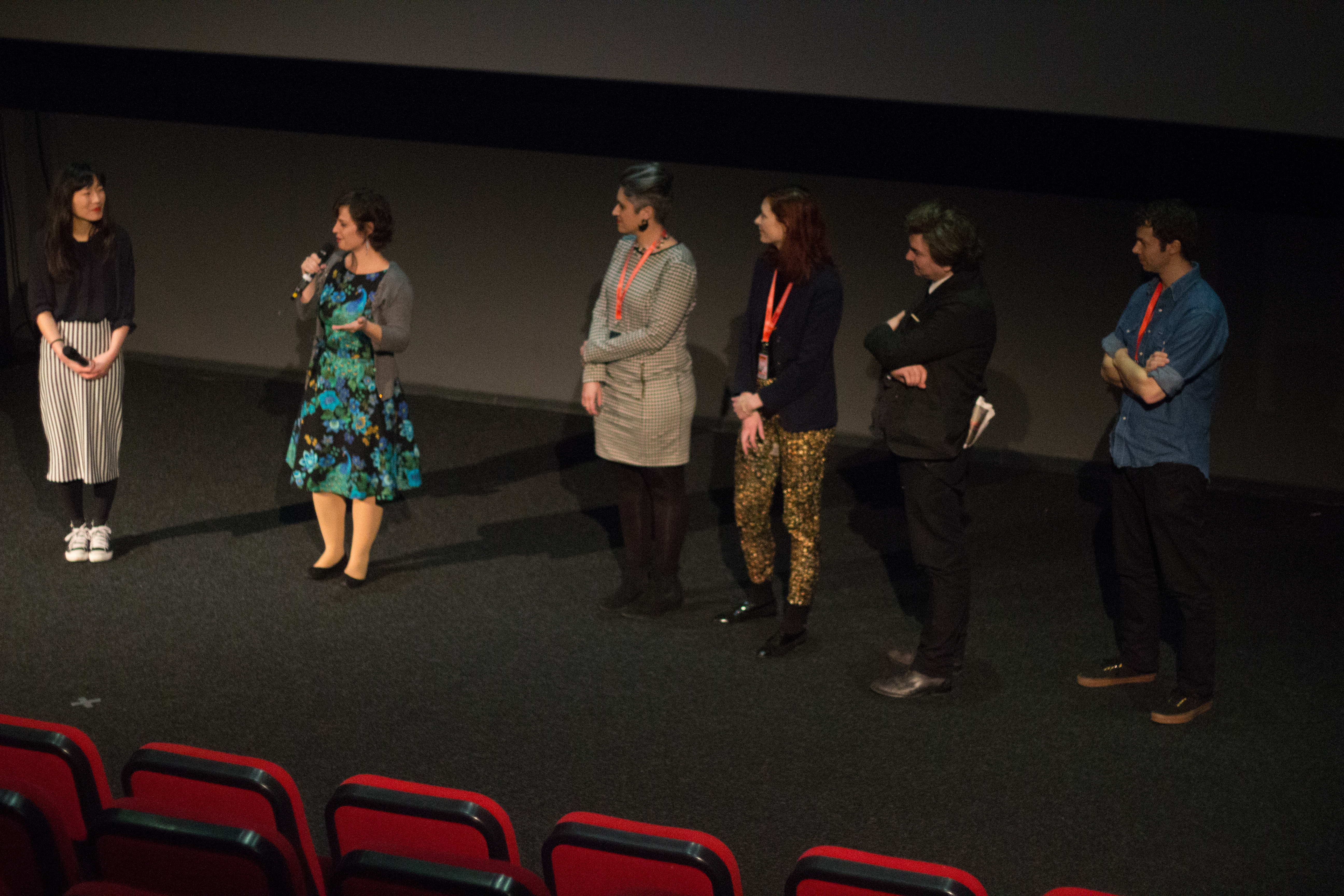 Penny Lane & co at the Q&A of the international premiere of the documentary film NUTS!